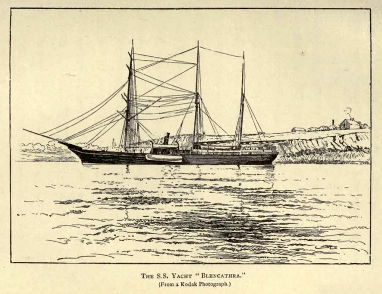 SS Yacht «Blencathra». Drawing from Kodak photograph. Fig. from «Polar gleams: an account of a voyage on the yacht «Blencathra» by Helen Peel. The ship was bought in 1912 by Georgy Brusilov for use in his ill-fated 1912 Arctic expedition to explore the Northern Sea Route, and was named Svyataya Anna (Russian: Святая Анна), after Saint Anne.